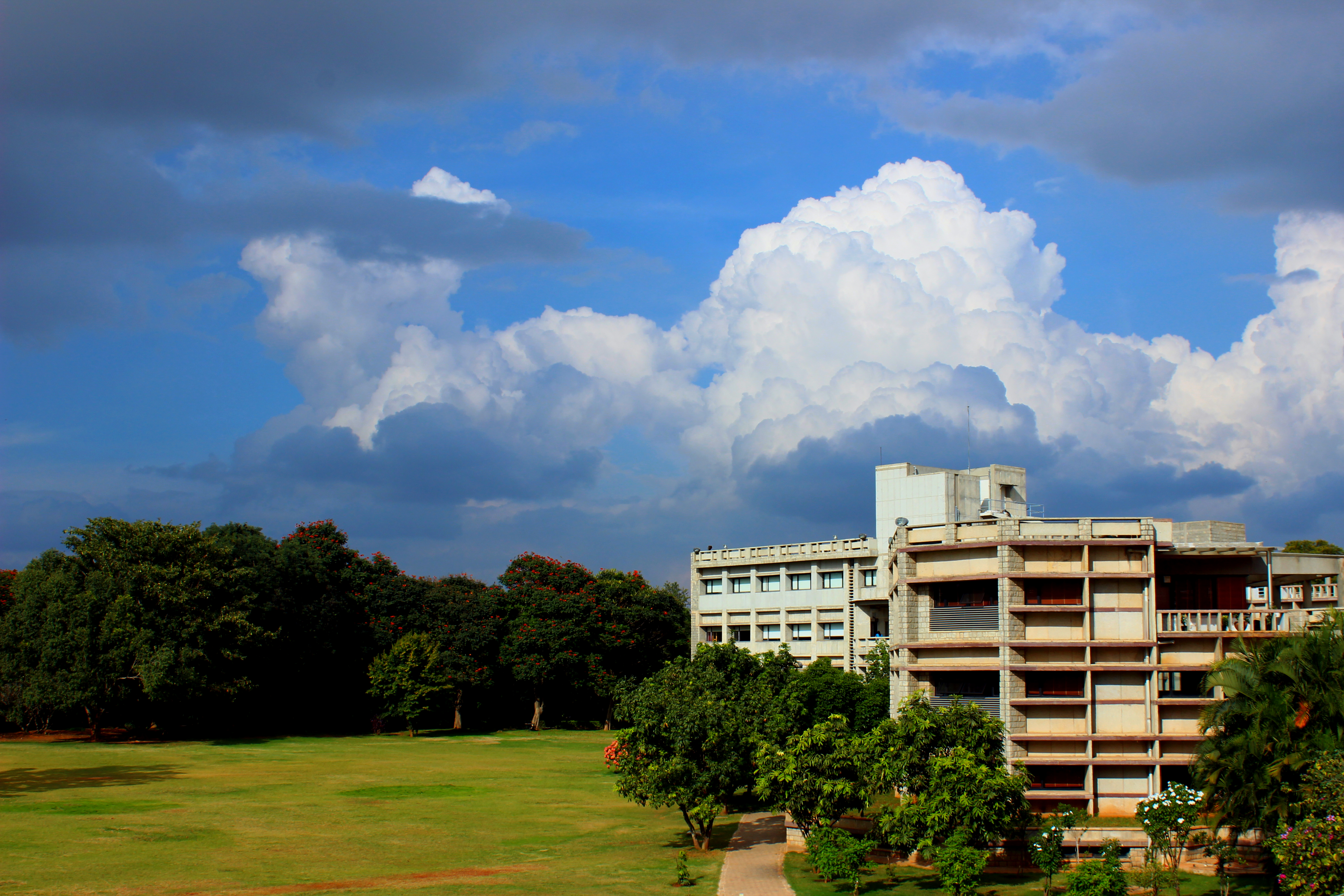 National Centre for Biological Sciences old building view